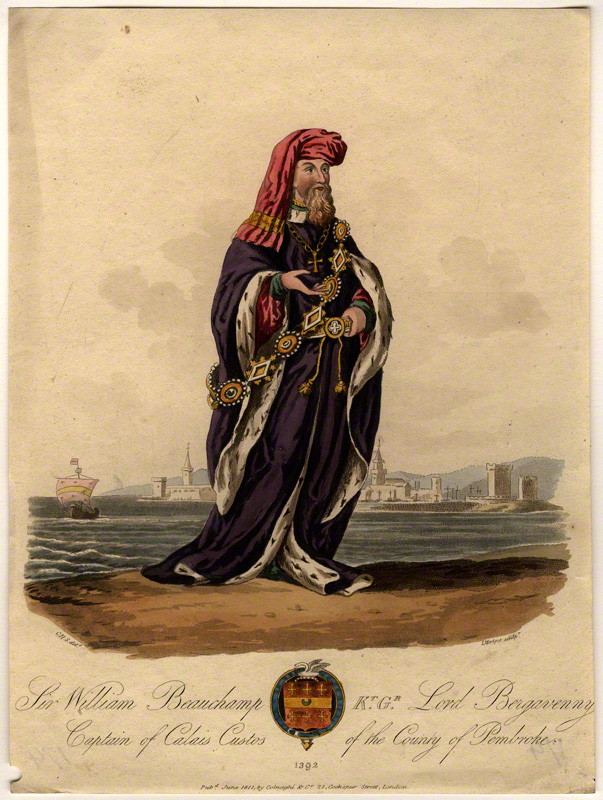 Called William Beauchamp, 1st Baron Bergavenny (c. 1343 – 8 May 1411) by J. Merigot, after 'C.H.S.' coloured aquatint, published 1811 11 3/8 in. x 8 1/2 in. (290 mm x 216 mm) paper size Purchased with help from the Friends of the National Libraries and the Pilgrim Trust, 1966 Reference Collection NPG D10996